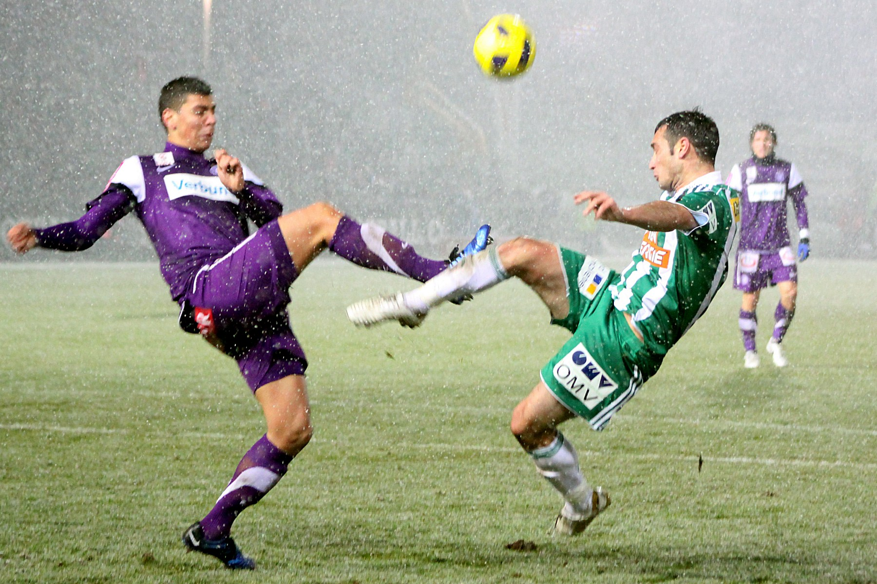 Derby of Vienna - FK Austria Wien vs SK Rapid Wien 0:1 – Hamdi Salihi (on the right side) scored in this match the 500st derby-goal for SK Rapid Wien. On the left side Aleksandar Dragović.